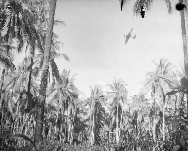 1942-12-28. PAPUA. A WIRRAWAY AIRCRAFT FLIES OVERHEAD DIRECTING FIELD ARTILLERY DURING THE ATTACK BY ALLIED INFANTRY AND AUSTRALIAN-MANNED TANKS ON BUNA.